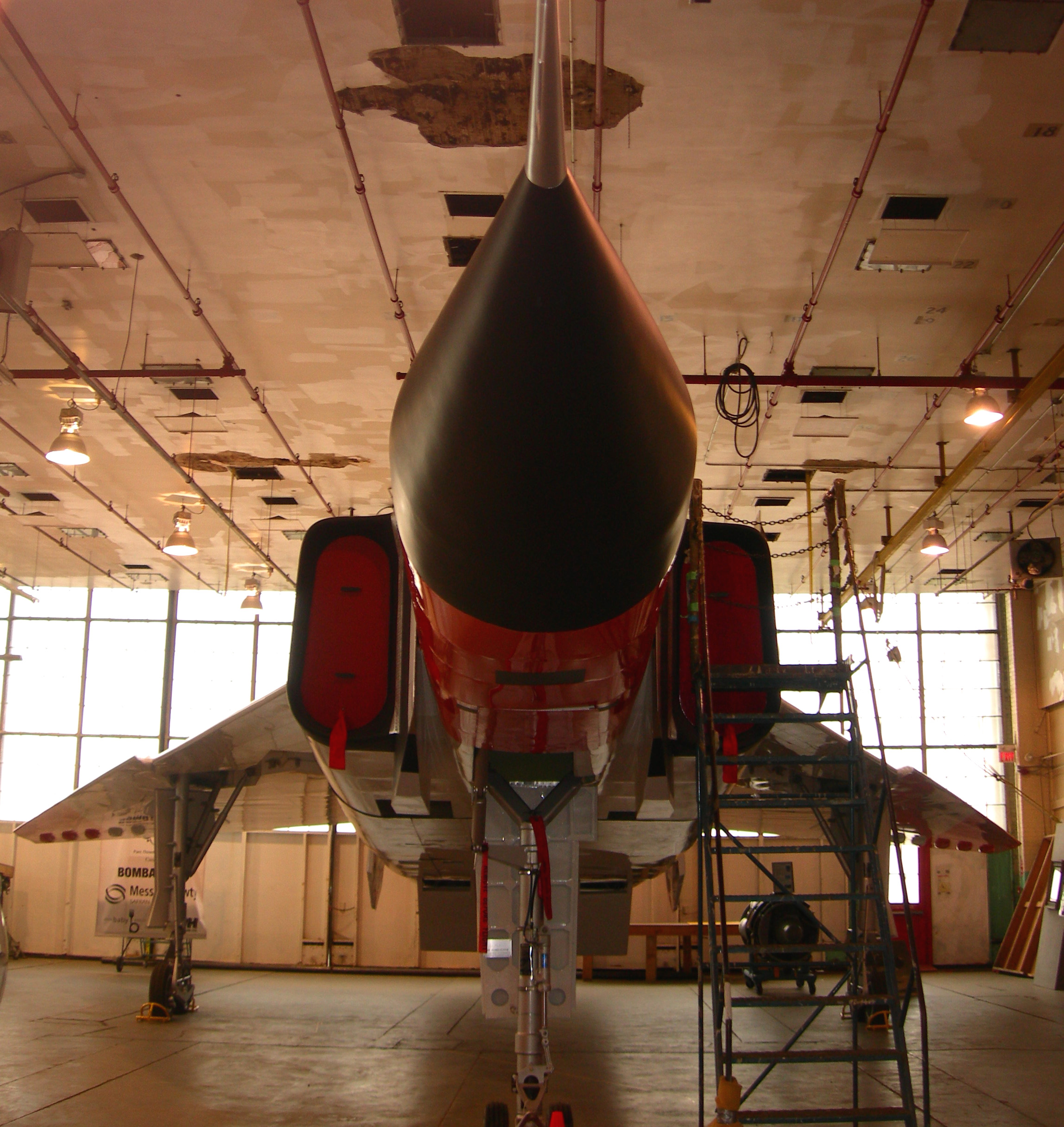 Location: Toronto Aerospace Museum, Downsview Airport, Toronto. Replica of the Avro CF-105 Arrow, Registration number RL-203 From Wikipedia: RL-201 first flew on 25 March 1958 with Chief Development Test Pilot S/L Janusz Zurakowski at the controls. Four more J75-powered Mk.1s were delivered in the next 18 months. The test flights went surprisingly well; the aircraft demonstrated excellent handling throughout the flight envelope. Much of this was due to the natural qualities of the delta-wing, but an equal amount can be attributed to the Arrow's stability augmentation system. The aircraft flew supersonically on only its third flight and, on its seventh flight, achieved a speed of over 1,000 miles per hour at 50,000 feet, while climbing and still accelerating. A top speed of Mach 1.98 would eventually be reached at three quarters throttle.